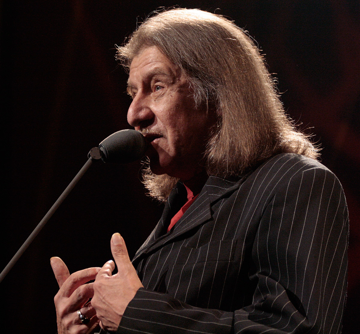 Ludwig 'Wickerl' Adam at the Amadeus Austrian Music Award (Museumsquartier, Vienna)